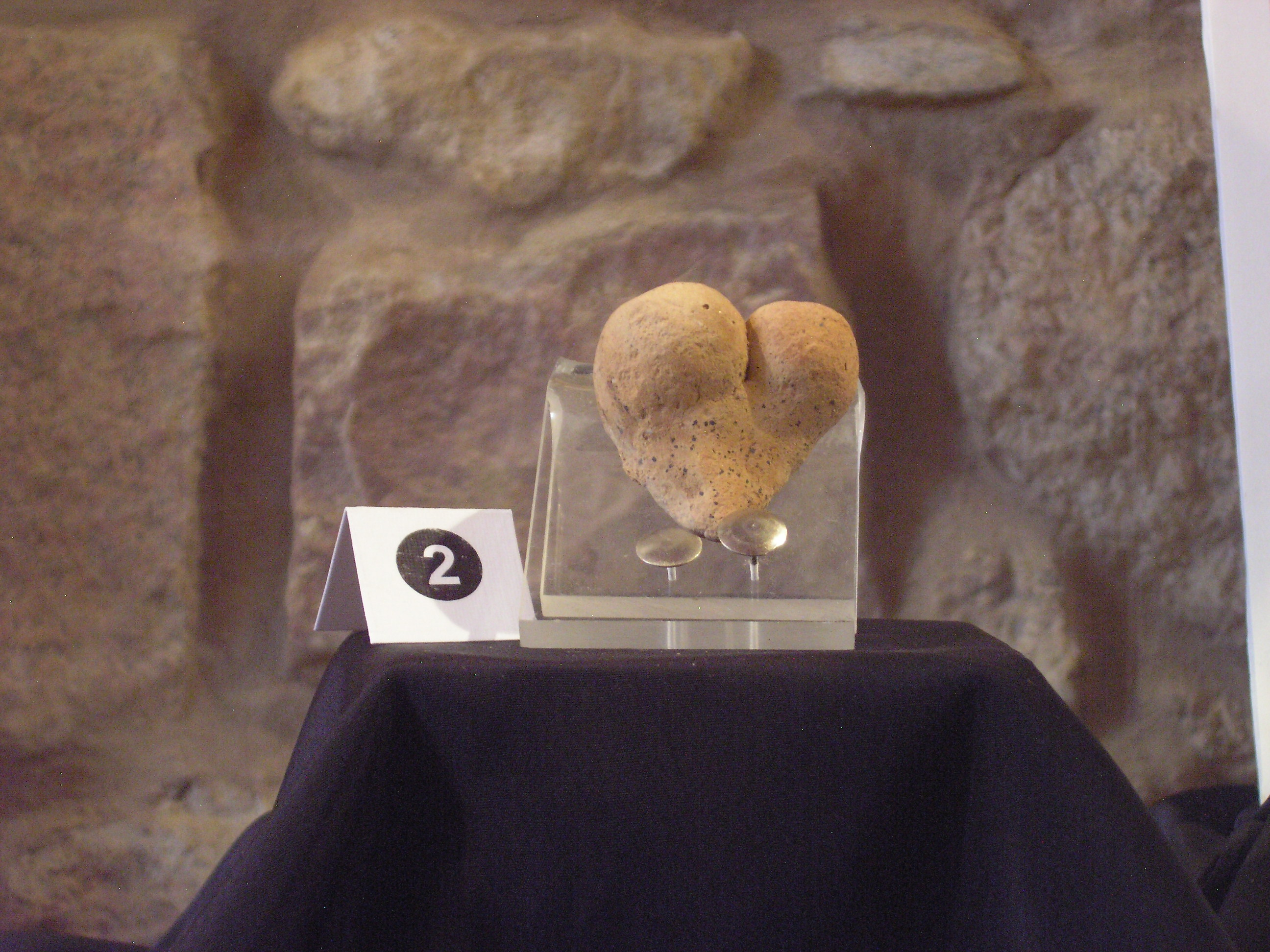 Aqaba Archaeological Museum; "Lady of Aqaba", part of a female figurine from Tall Hujayrat al-Ghuzlan. Chalkolithic, clay.